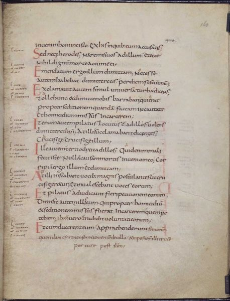 Folio 160v from the Vulgata manuscript British Libray MS Add. 11848, text: Luke 23:15–26. Written in Carolingian minuscule. The text says: inveni in homine isto ex his in quibus eum accusatis. Sed neque Herodes: nam remisi vos ad illum, et ecce nihil dignum morte actum est ei. Emendatum ergo illum dimittam. Necesse autem habebat dimittere eis per diem festum unum. Exclamavit autem simul universa turba, dicens: Tolle hunc, et dimitte nobis Barabbam: qui erat propter seditionem quamdam factam in civitate et homicidium missus in carcerem. Iterum autem Pilatus locutus est ad eos, volens dimittere Jesum. At illi succlamabant, dicentes: Crucifige, crucifige eum. Ille autem tertio dixit ad illos: Quid enim mali fecit iste? nullam causam mortis invenio in eo: corripiam ergo illum et dimittam. Et illi instabant vocibus magnis postulantes ut crucifigeretur: et invalescebant voces eorum. Et Pilatus adjudicavit fieri petitionem eorum. Dimisit autem illis eum qui propter homicidium et seditionem missus fuerat in carcerem, quem petebant: Jesum vero tradidit voluntati eorum. Et cum ducerent eum, apprehenderunt Simonem quemdam Cyrenensem venientem de villa: et imposuerunt illi crucem portare post Jesum.